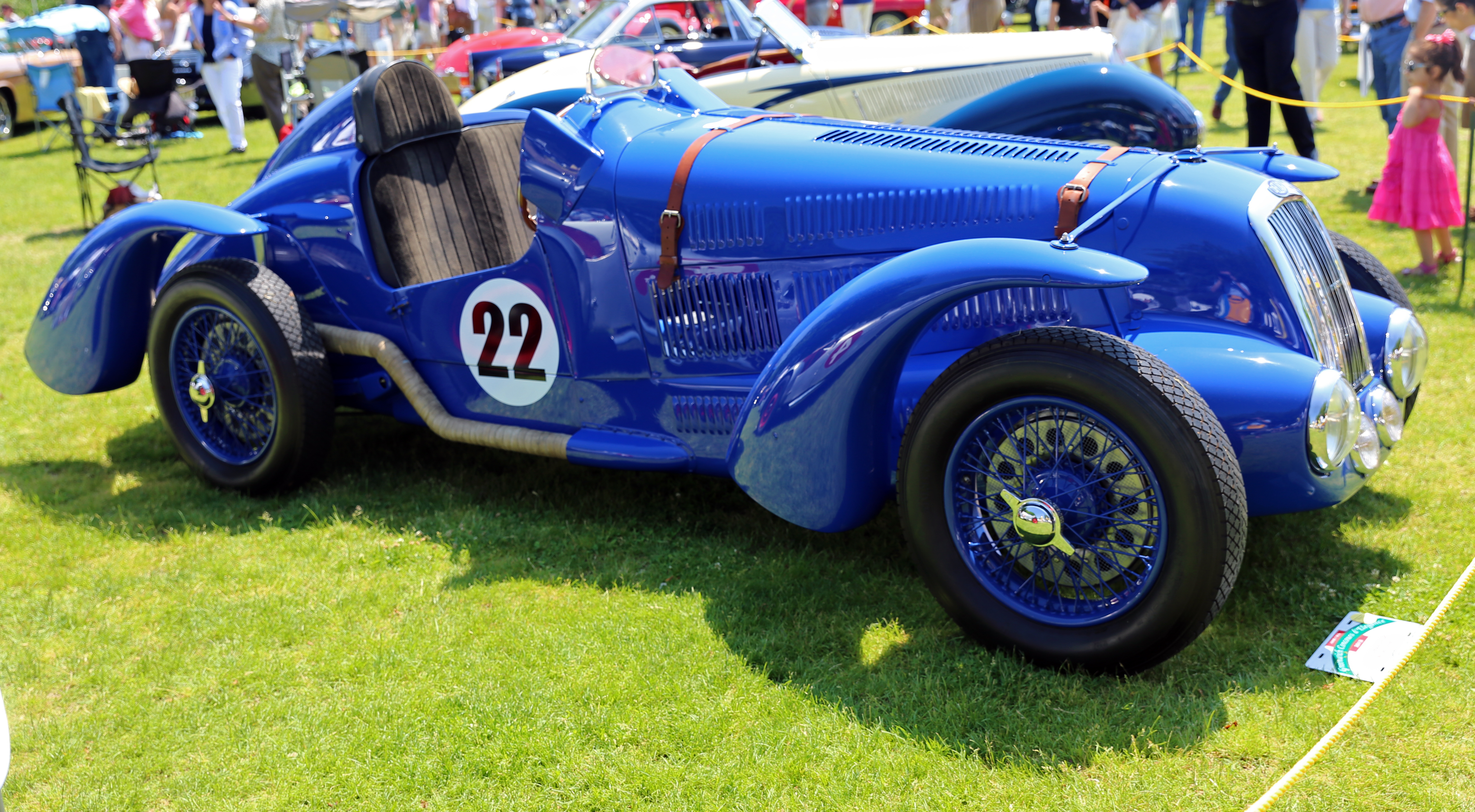 1939 Delage D6 Grand Prix at the 2013 Greenwich Concours d'Elegance.